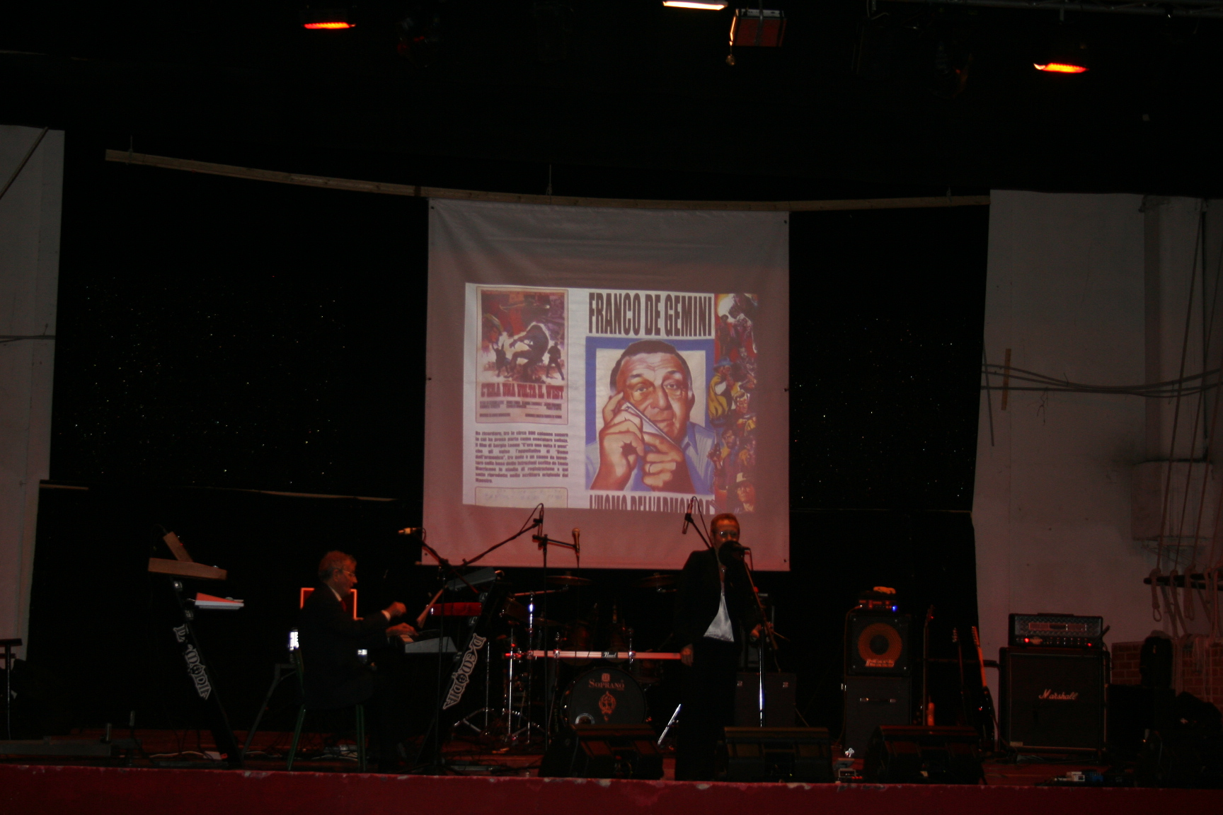 Soundtracks – A tribute to Pino Rucher (San Nicandro Garganico). Edda Dell'Orso is singing a famous composition from the film Once Upon a Time in the West; she is accompanied by Giacomo Dell’Orso at the keyboard.